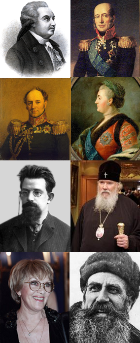 Russian germans. Collage made for the russian article (Российские немцы)